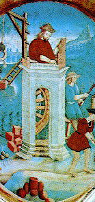 Mexican Colonial Painting by Juan Gerson where Maya Blue was used. The technique disappeared in the early colonial period.